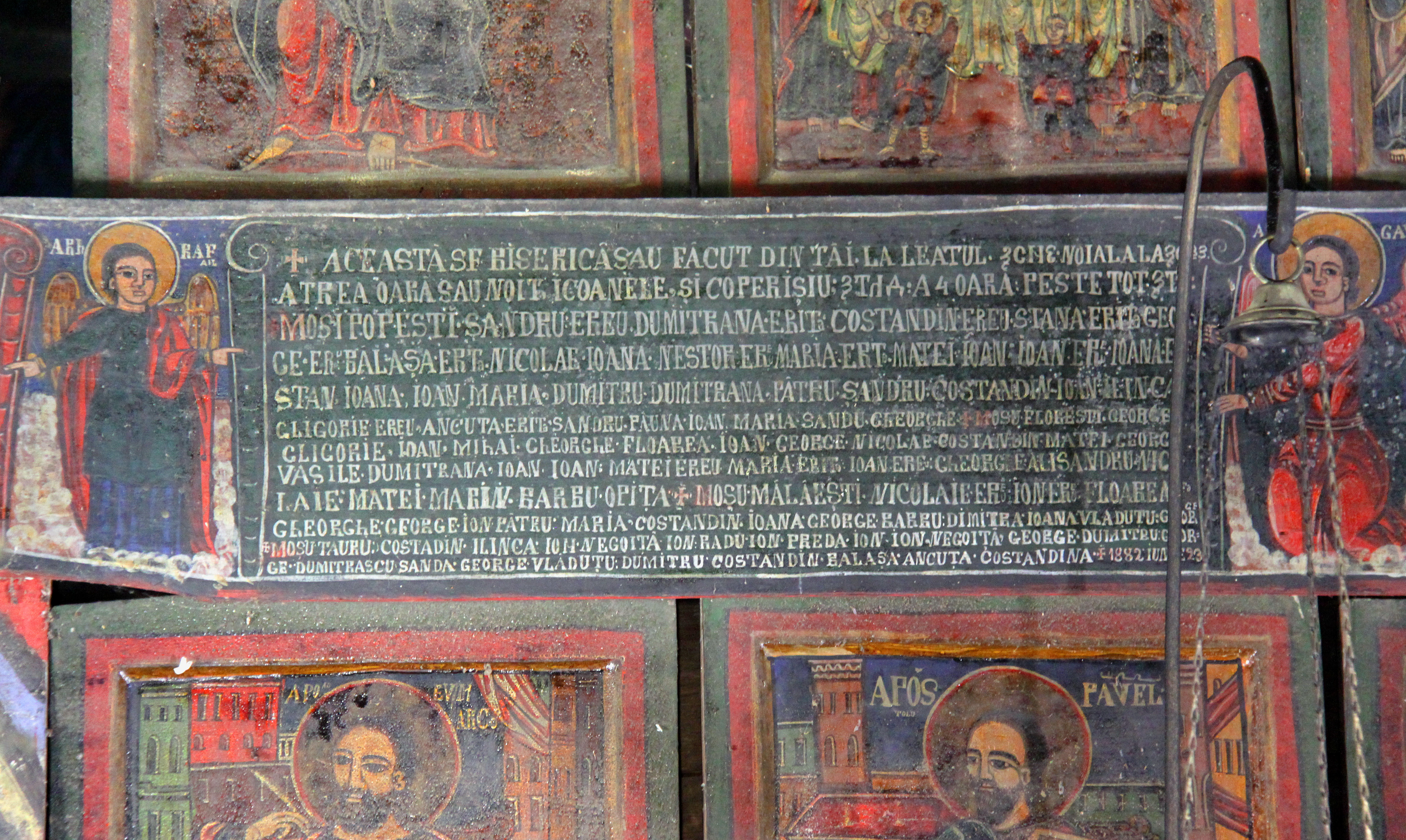 Floreşteni, Târgu Cărbuneşti, Gorj county: the wooden church, inscription on the icon screen.